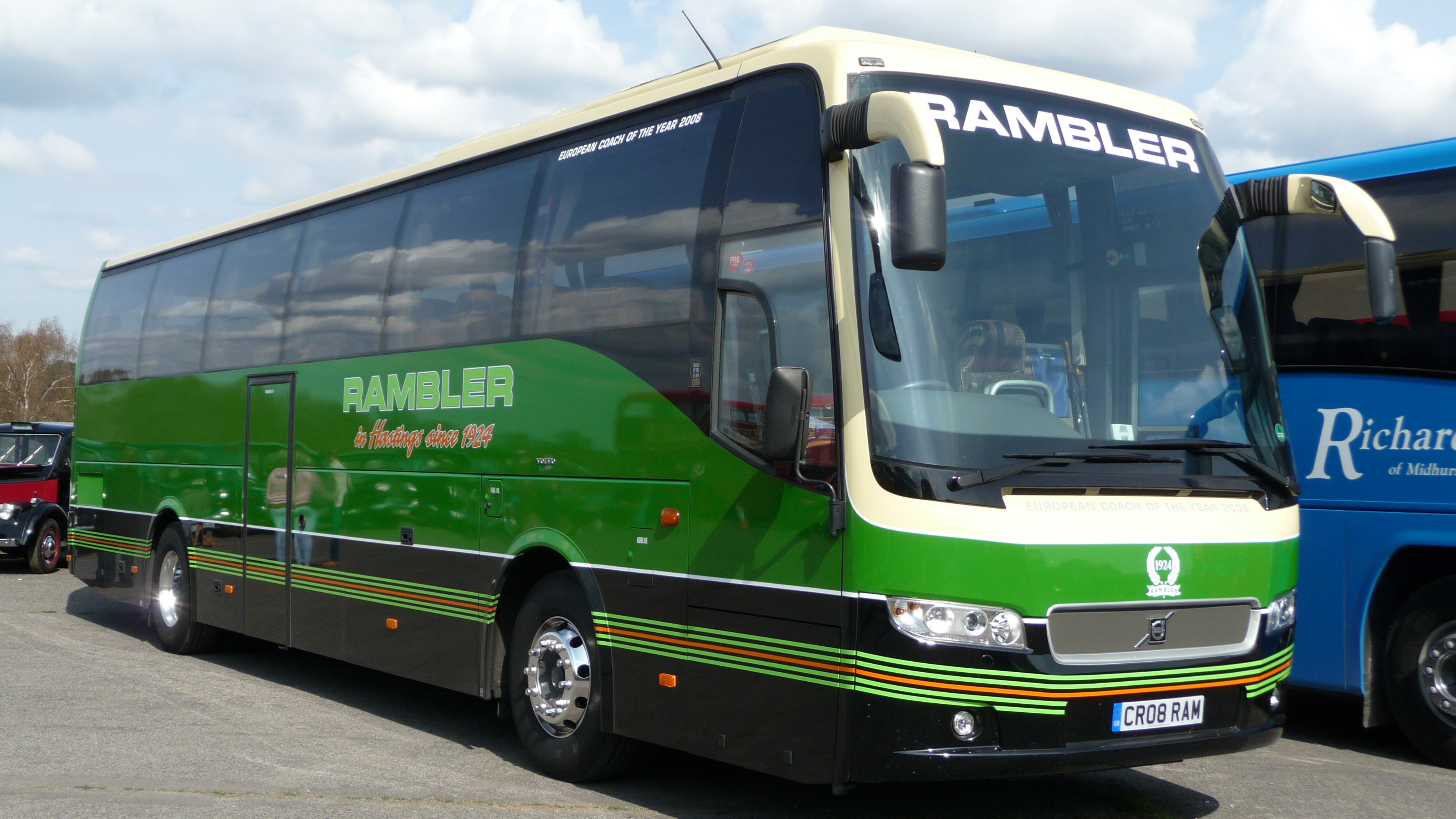 Rambler's CR08 RAM, a Volvo B12B/Volvo 9700 Prestige Plus, at the 2009 Cobham bus rally at Wisley Airfield.